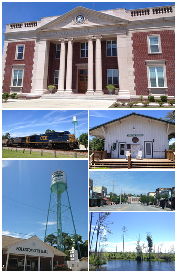 A collection of photos I took around Folkston